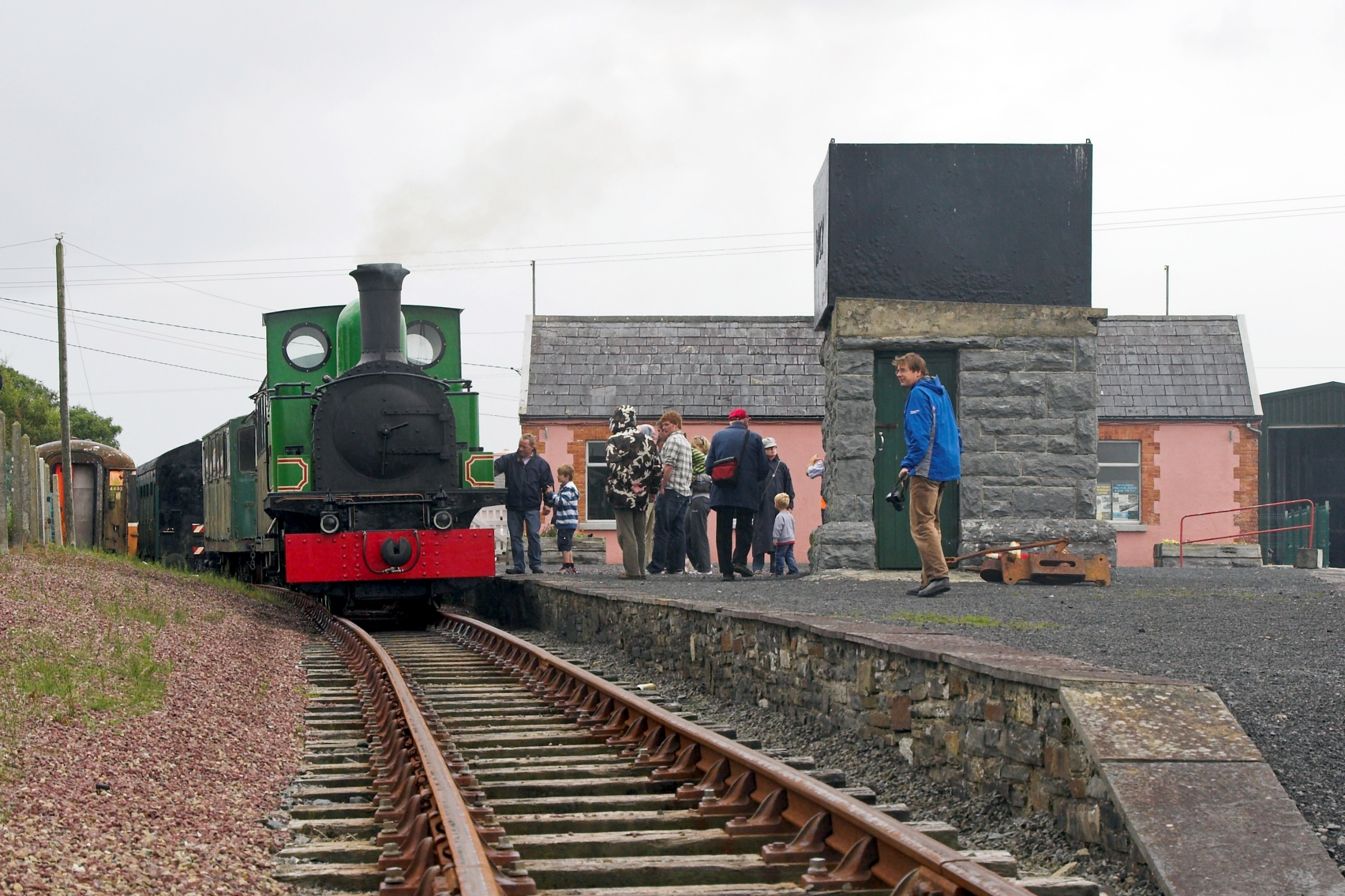 The West Clare Railway's Slieve Callan steaming at the Kilrush branch platform at Moyasta station.